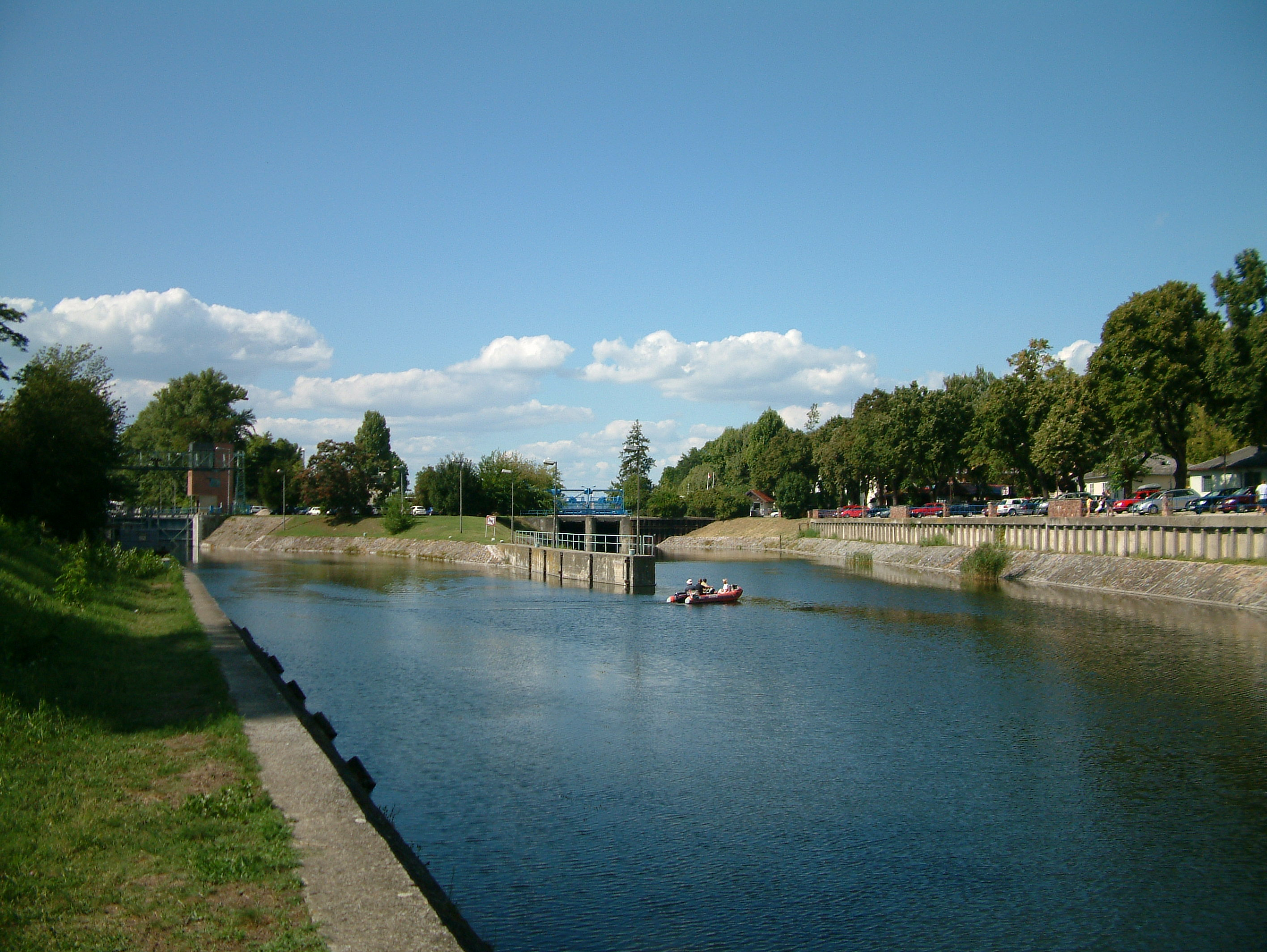 Sluice gate of Sió river in Siófok